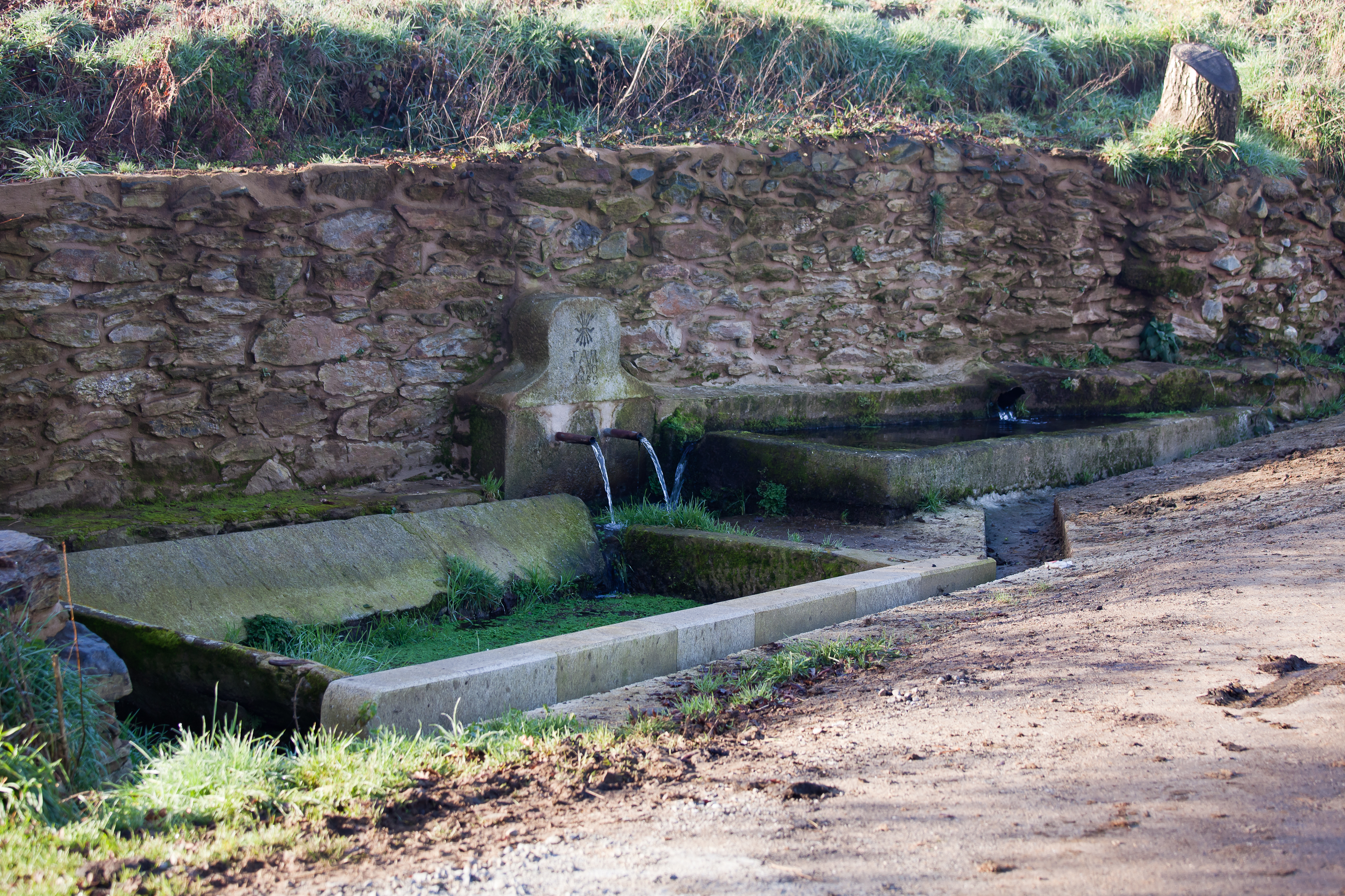 Source and laundries in Doade, Lalín, Galicia (Spain)